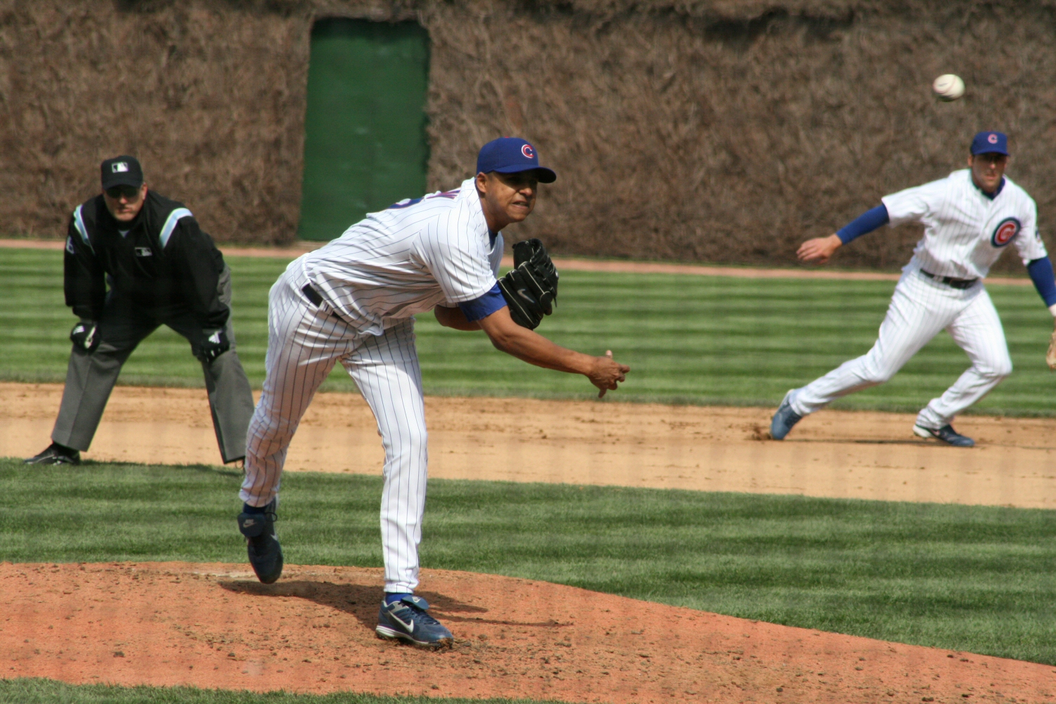 Ángel Guzmán on to relieve. As Derosa makes a break for his fielding position. Umpire Eric Cooper watches on